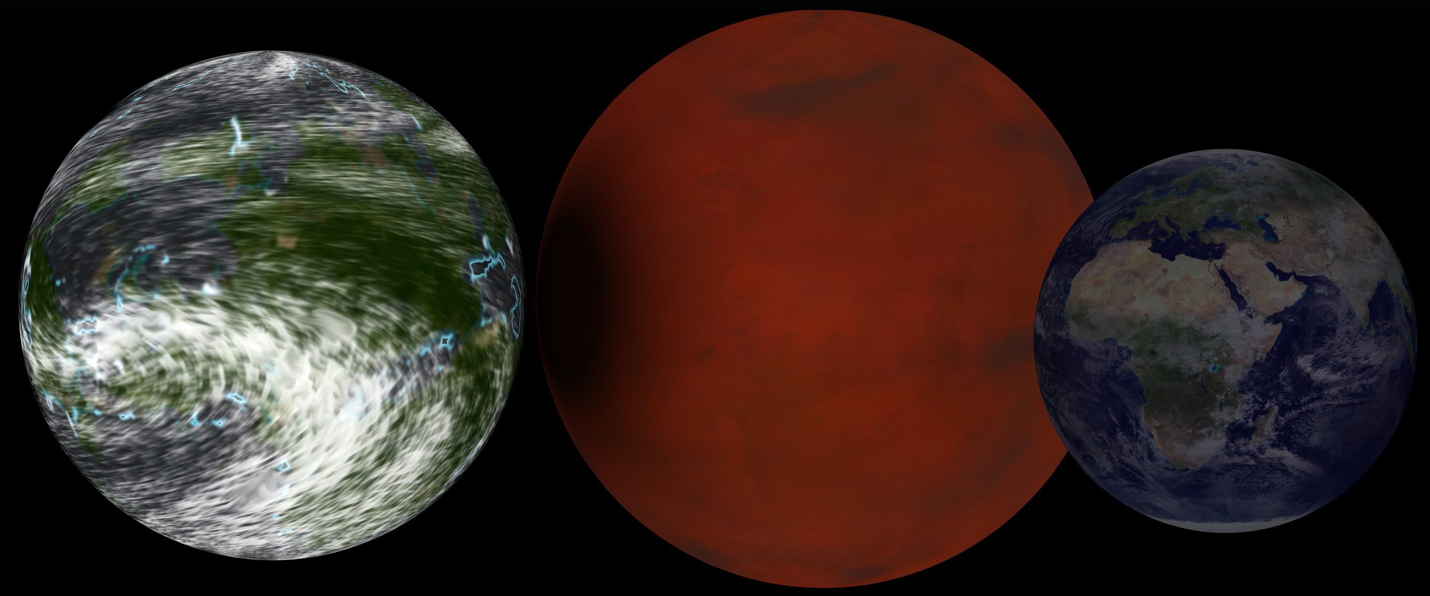 Hypothetical "super earth" next to Earth for comparison. (Earth texture courtesy of NASA's The Blue Marble: Land Surface, Ocean Color, Sea Ice and Clouds)